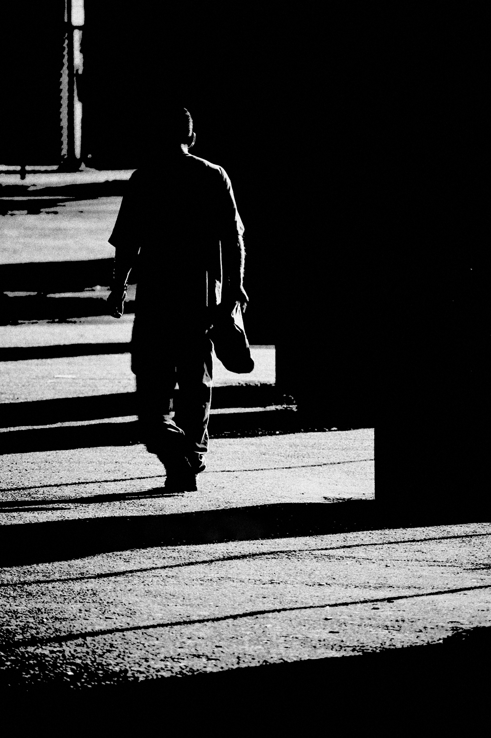 Walking home after a long day